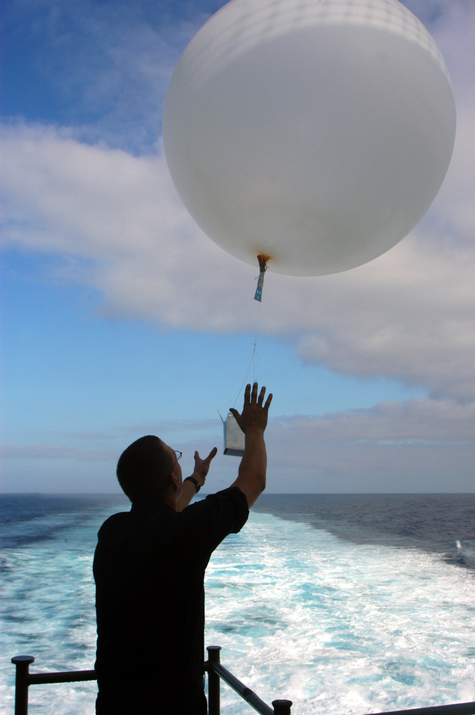 Atlantic Ocean (June 23, 2004) - Aerographer’s Mate Airman Harley Houston releases a weather balloon aboard the conventionally powered aircraft carrier USS John F. Kennedy (CV 67), to measure atmospheric conditions, including temperature and wind speed. Kennedy is one of seven aircraft carriers involved in Summer Pulse 2004. Summer Pulse 2004 is the simultaneous deployment of seven aircraft carrier strike groups (CSGs), demonstrating the ability of the Navy to provide credible combat power across the globe, in five theaters with other U.S., allied, and coalition military forces. Summer Pulse is the Navy's first deployment under its new Fleet Response Plan (FRP). U.S. Navy photo by Photographer's Mate Airman Apprentice Eric Cutright (RELEASED)